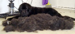 This is a photo I took of my Newfoundland after combing undercoat out